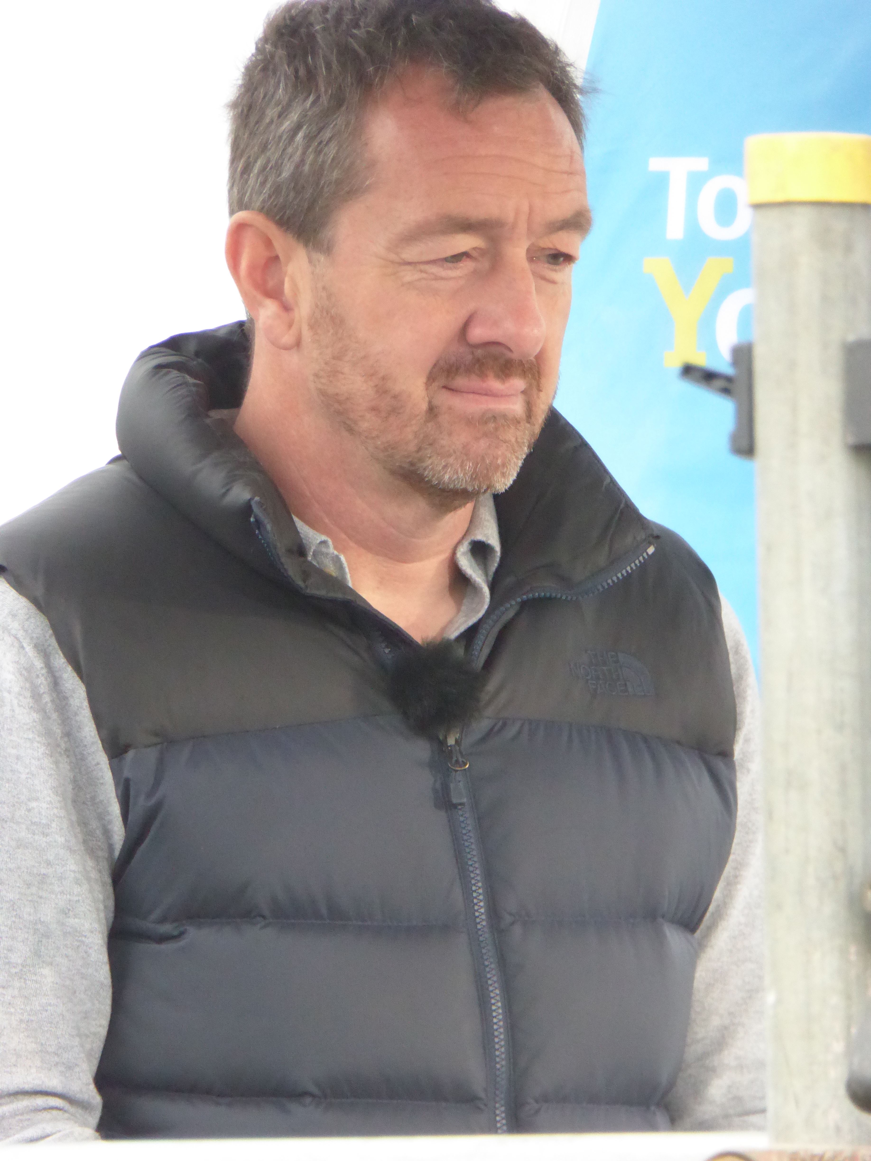 The Professor himself, Chris Boardman, on ITV Sport's presentation platform at the 2018 Tour de Yorkshire.